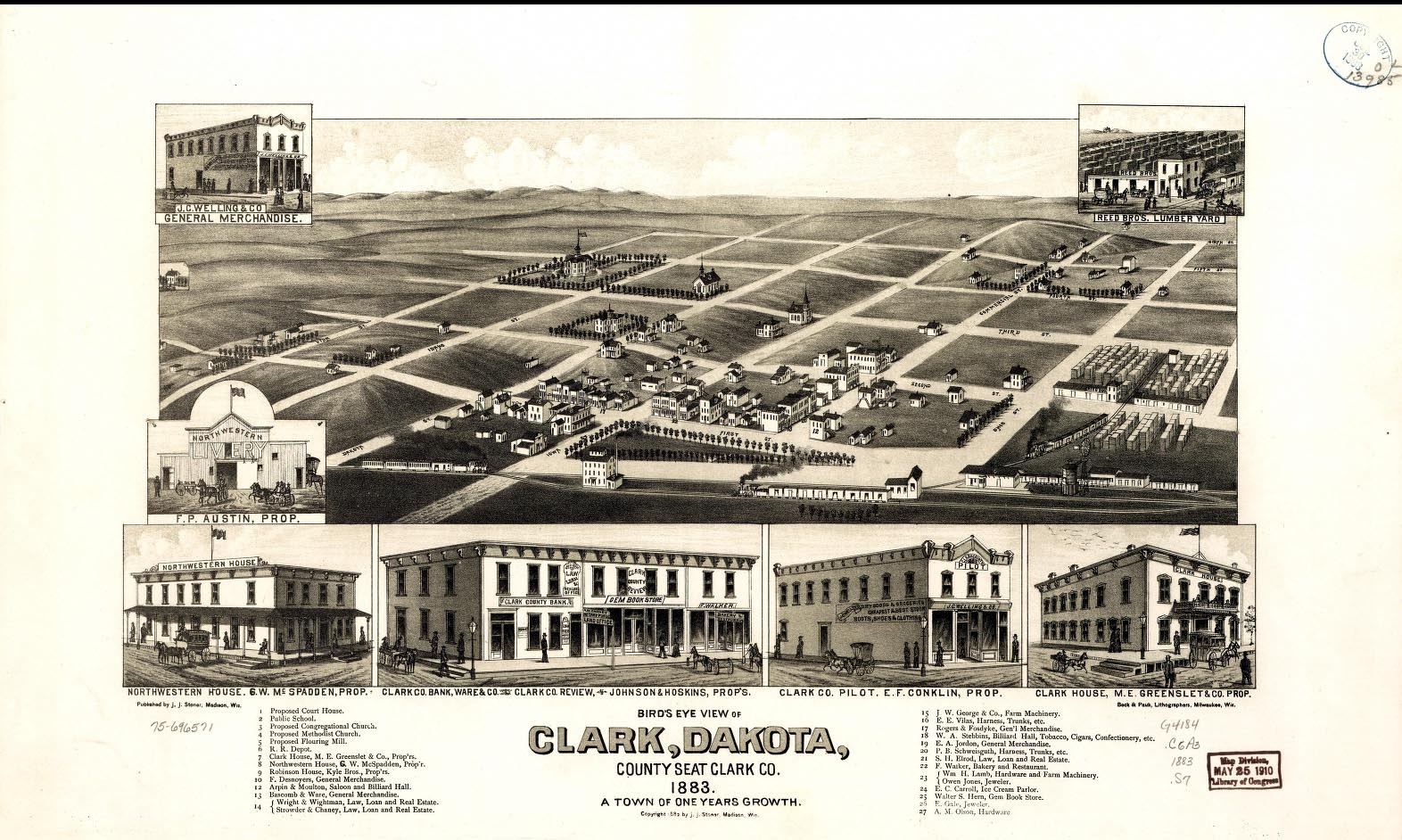 1883 bird's eye illustration of Clark, South Dakota, USA.